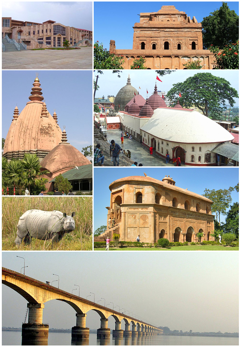 Montage of Assam state (clockwise from top): Academic complex IIT Guwahati, Ahom Raja's Palace, Kamakhya Temple at Guwahati, Rang Ghar pavilions, Kolia Bhomora bridge over Brahmaputra river, one horned rhinoceros (Rhinoceros unicornis) at Kaziranga National Park, and Siva dol of Sivsagar.